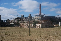 Old area of Fray Bentos Meat Factory